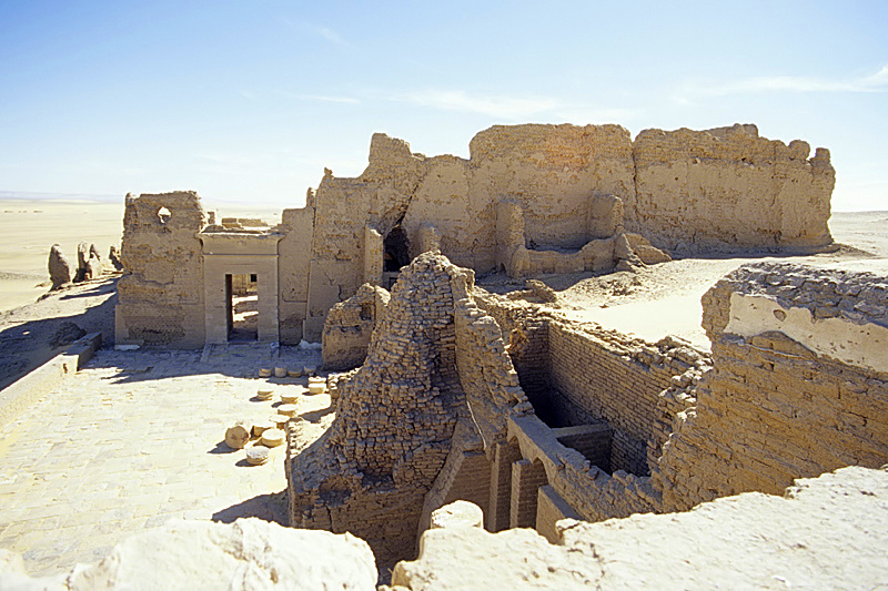 North side of the fortress of Qasr Dush, the entrance to the Temple of Isis and Serapis is on the east side, el-Kharga depression, Libyan desert, Egypt